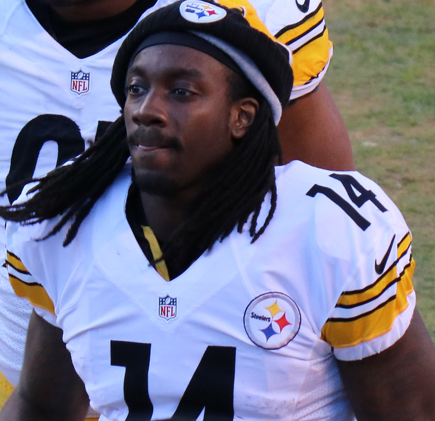 Sammie Coates, a player on the National Football League.